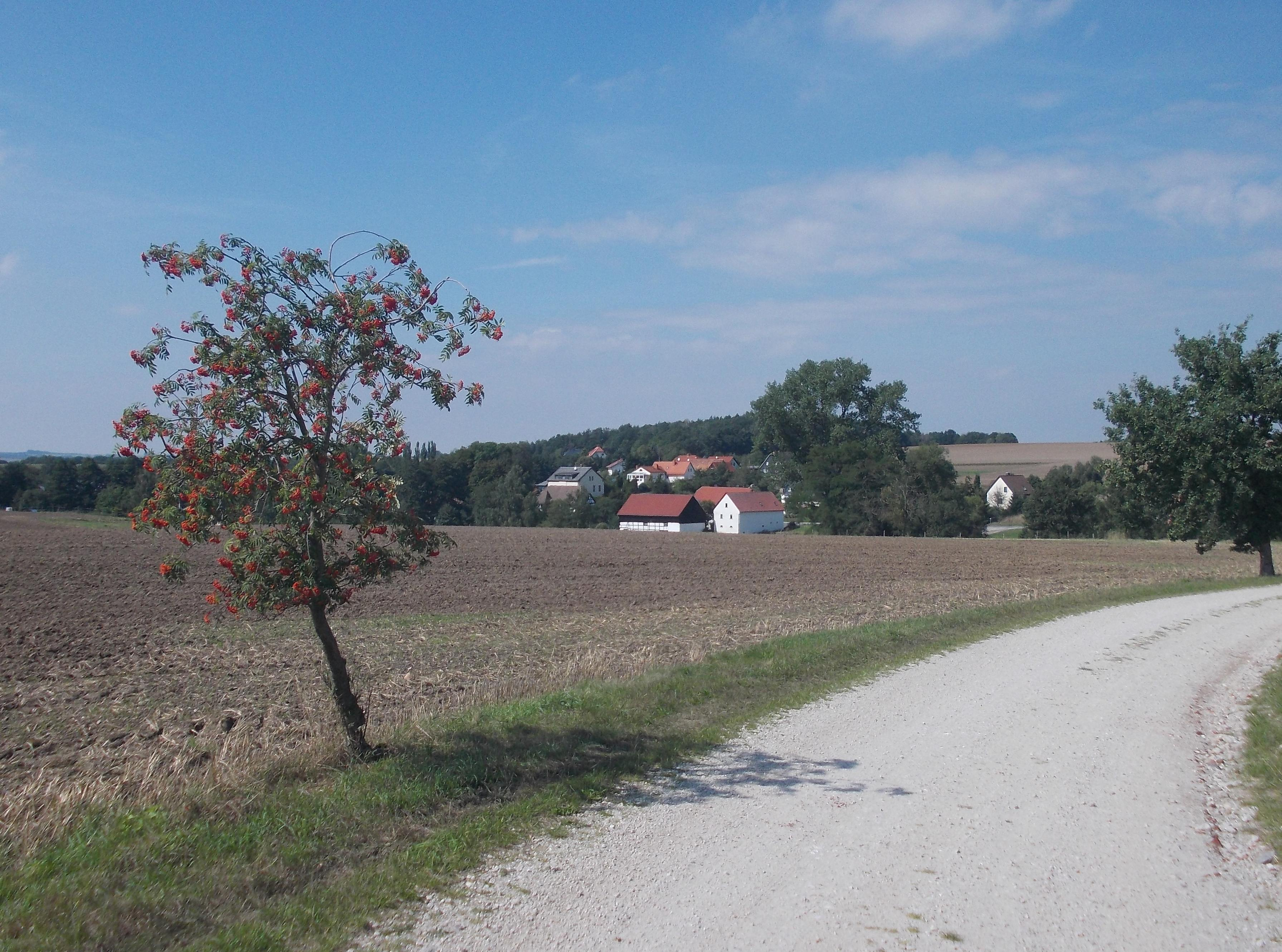 Gersdorf (Crimmitschau, Zwickau district, Saxony) from the south-east